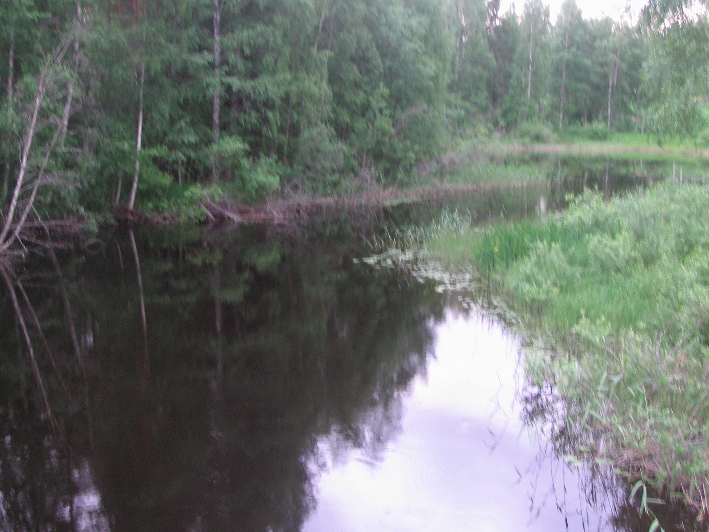 A river in Pörölänmäki, Suonenjoki, Finland